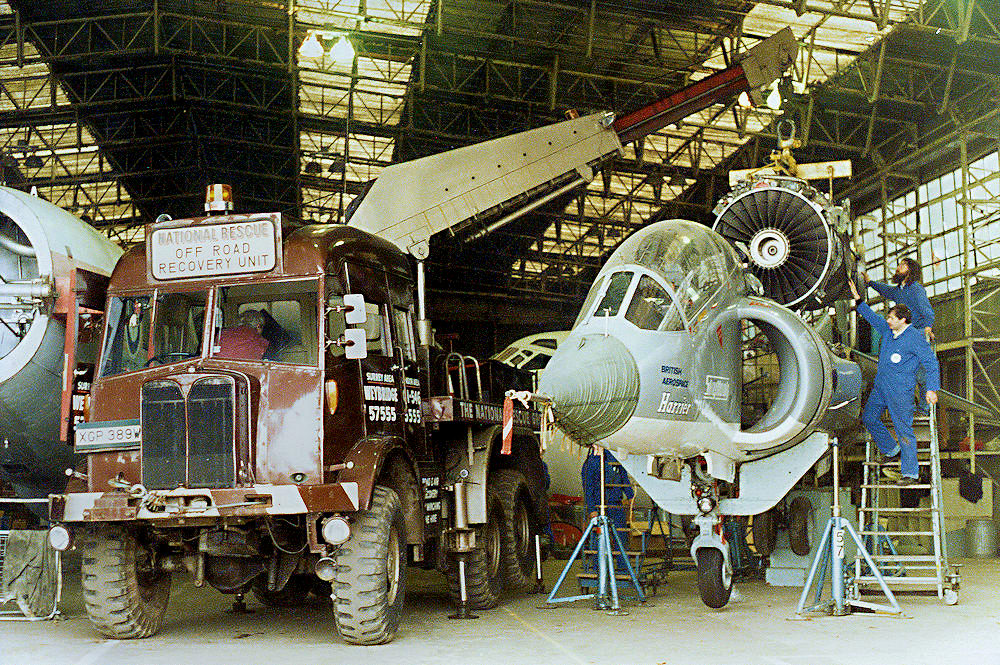 Milly Tant lifting an Pegasus engine into a Harrier at Brooklands Museum in 1987